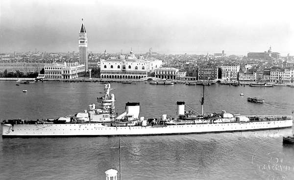 Olasz könnyűcirkáló 177.